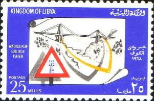 Wadi elkoof Bridge, 25 Mills Postage (1968).